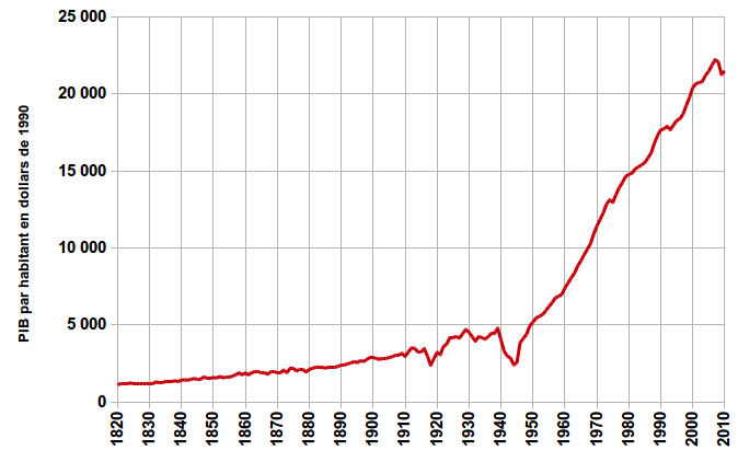 GDP per capita in France from 1820 to 2010 in 1990 international Geary-Khamis Dollars. Data from Projet Maddison (Bolt, J. and J. L. van Zanden (2013). The First Update of the Maddison Project).